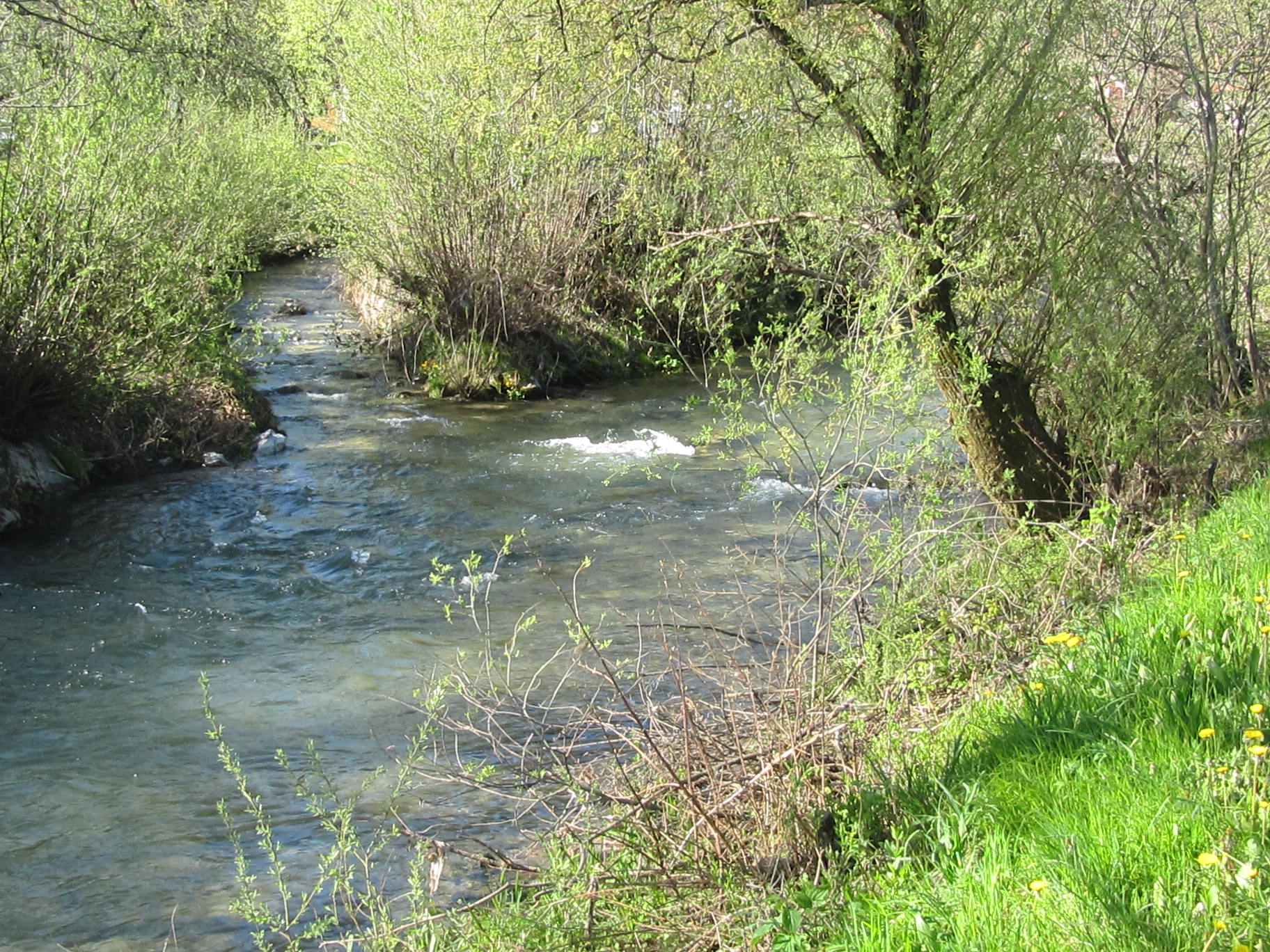 The confluence of Prosca Creek and the Gradaščica River in Dolenja Vas pri Polhovem Gradcu, Municipality of Dobrova–Polhov Gradec, Slovenia